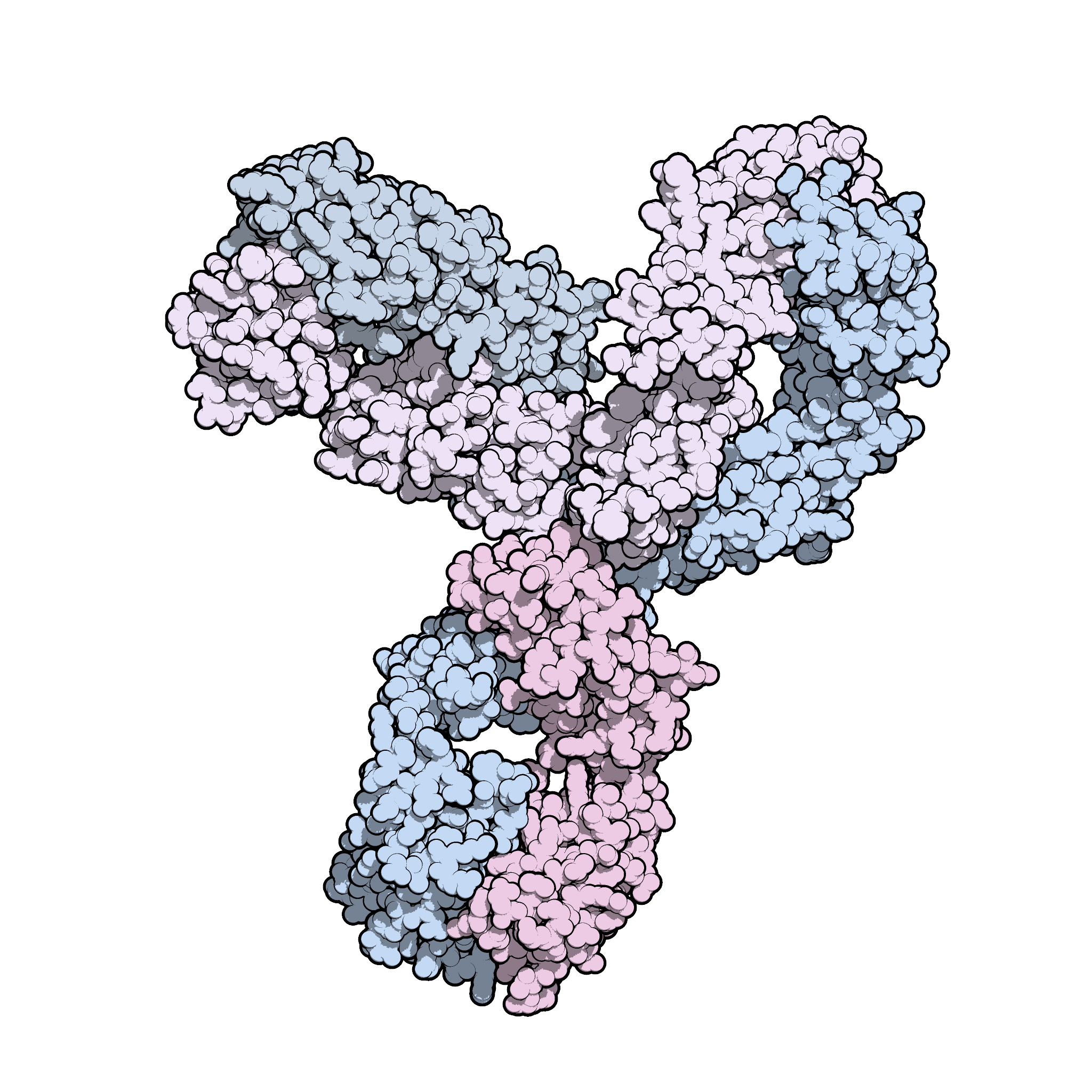 Space-filling model of pembrolizumab. False-colored to more easily distinguish heavy and light chains. Style made to resemble the Protein Data Bank's "Molecule of the Month" series, illustrated by Dr. David S. Goodsell of the Scripps Research Institute. Created using QuteMol ( Optimized with OptiPNG.